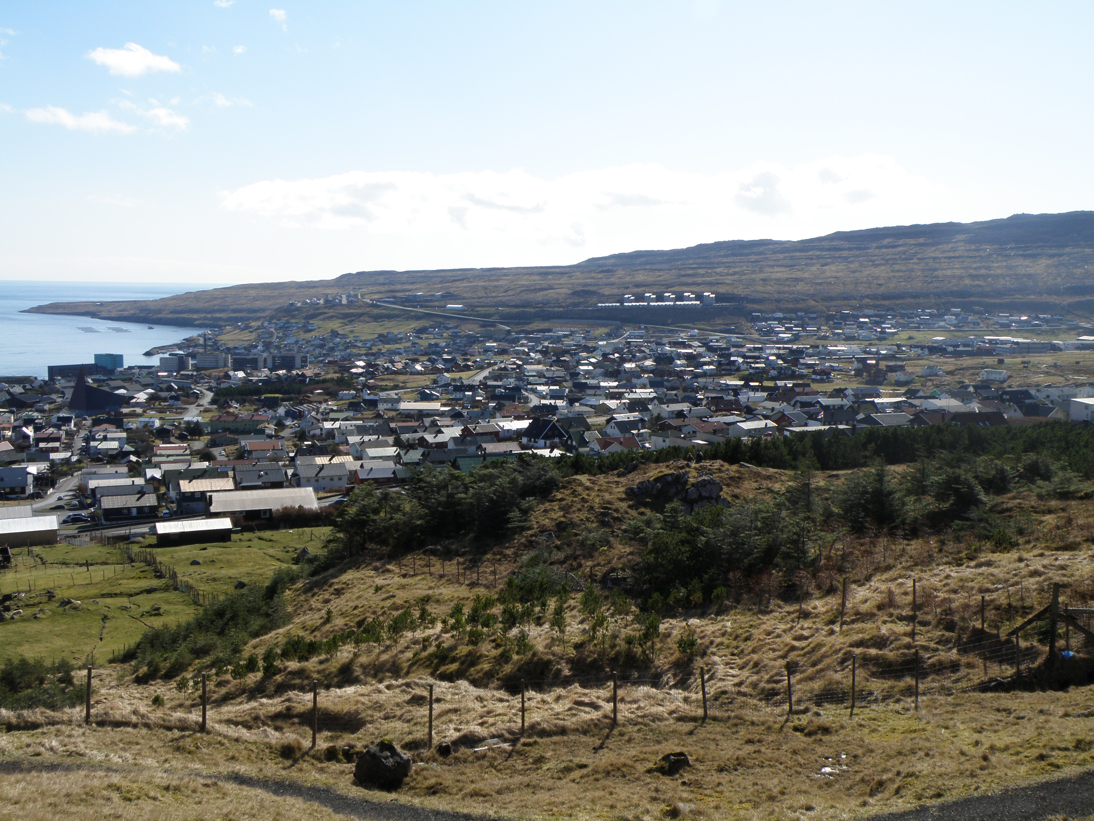 View over Tórshavn and Argir. Tórshavn is the capital of the Faroe Islands. Argir and Tórshavn have grown together. Argir is south of Tórshavn, there are some high buildings to the left on this photo, these are the National Hospital of the Faroe Islands or building which belong to the hospital. Argir is further south than the hospital. This photo is taken near Oyggjarvegur and Hotel Føroyar, which are above the town of Tórshavn. The centre of Tórshavn and the eastern part of the town along with other parts are not visible on this photo. Most of the western part of Tórshavn is visible on this photo and a large part of Argir. Føroyskt: Vesturbýurin í Havn (Tórshavn) og Argir. Myndin er tikin nærhendis Oyggjarvegin og Hotel Føroyar 4. apríl 2010.